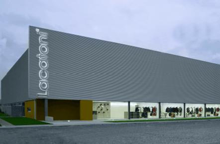 Lacatoni